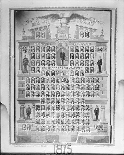 poster monograph of Kansas Legislature 1875 with photographs of legislators